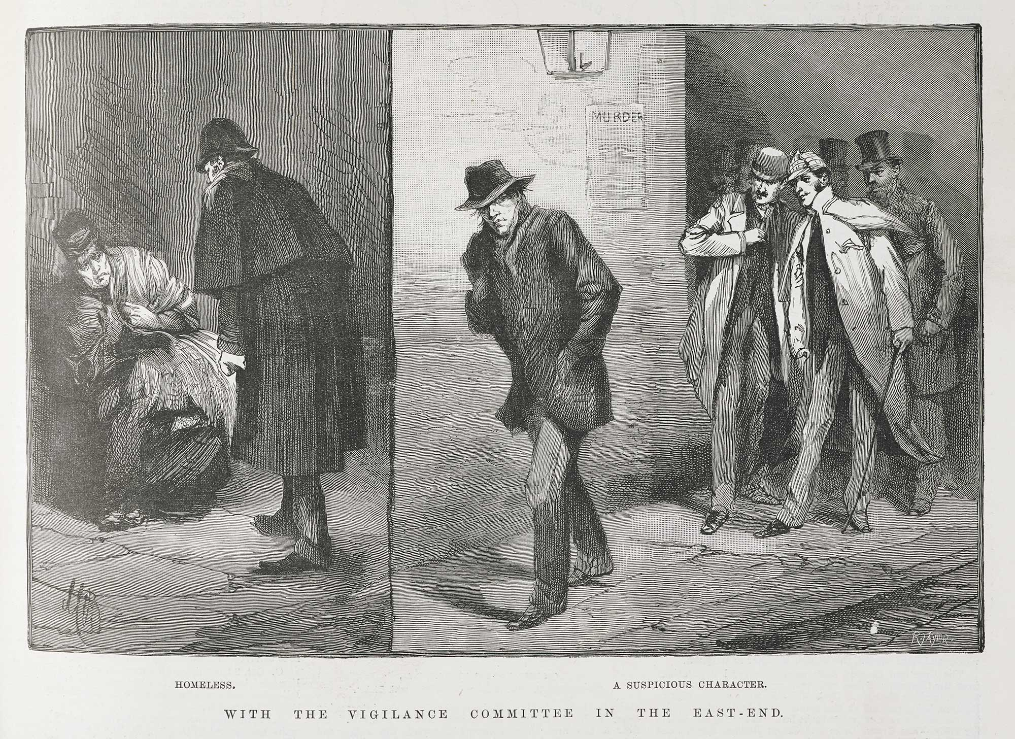 The Illustrated London News - October 13, 1888 - With the Vigilance Committee in the East End